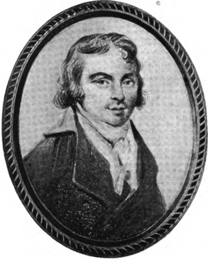 miniature of Robert Haswell